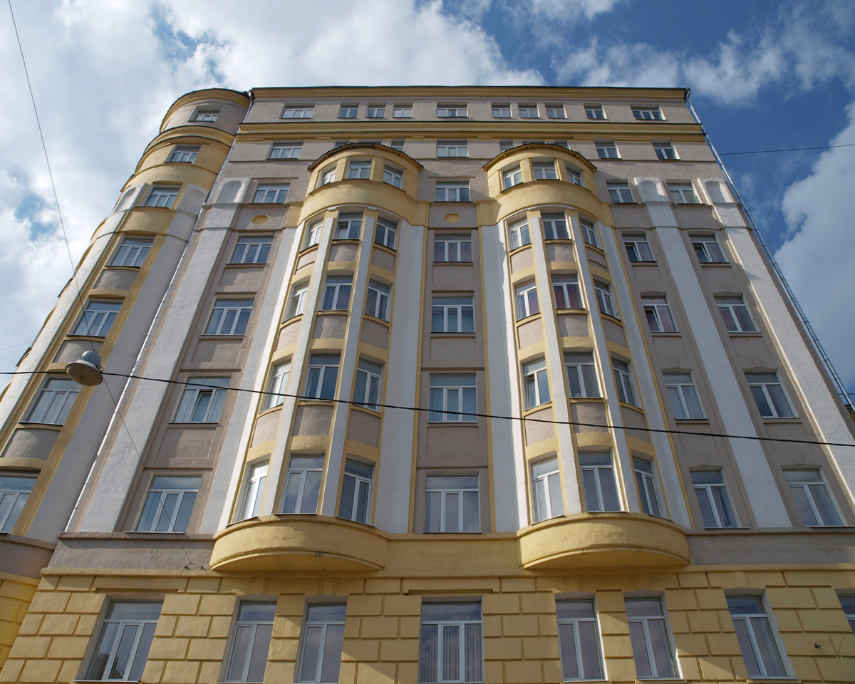 Malaya Pirogovskaya Street, Moscow - student halls of the Sechenov Moscow Medical Academy. Looks like stalinist architecture but has been built during World War One - one of the early skyscrapers.